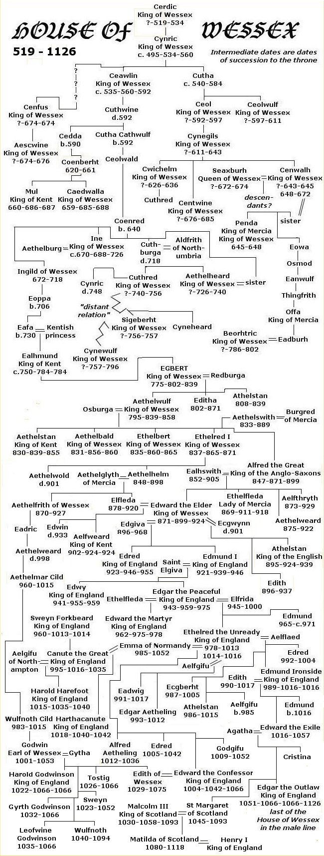 Family tree of the Kings of Wessex. The links tracing the ancestry of the Godwins back to King Æthelred I are based on theories put forward by genealogists which are rejected by almost all historians.